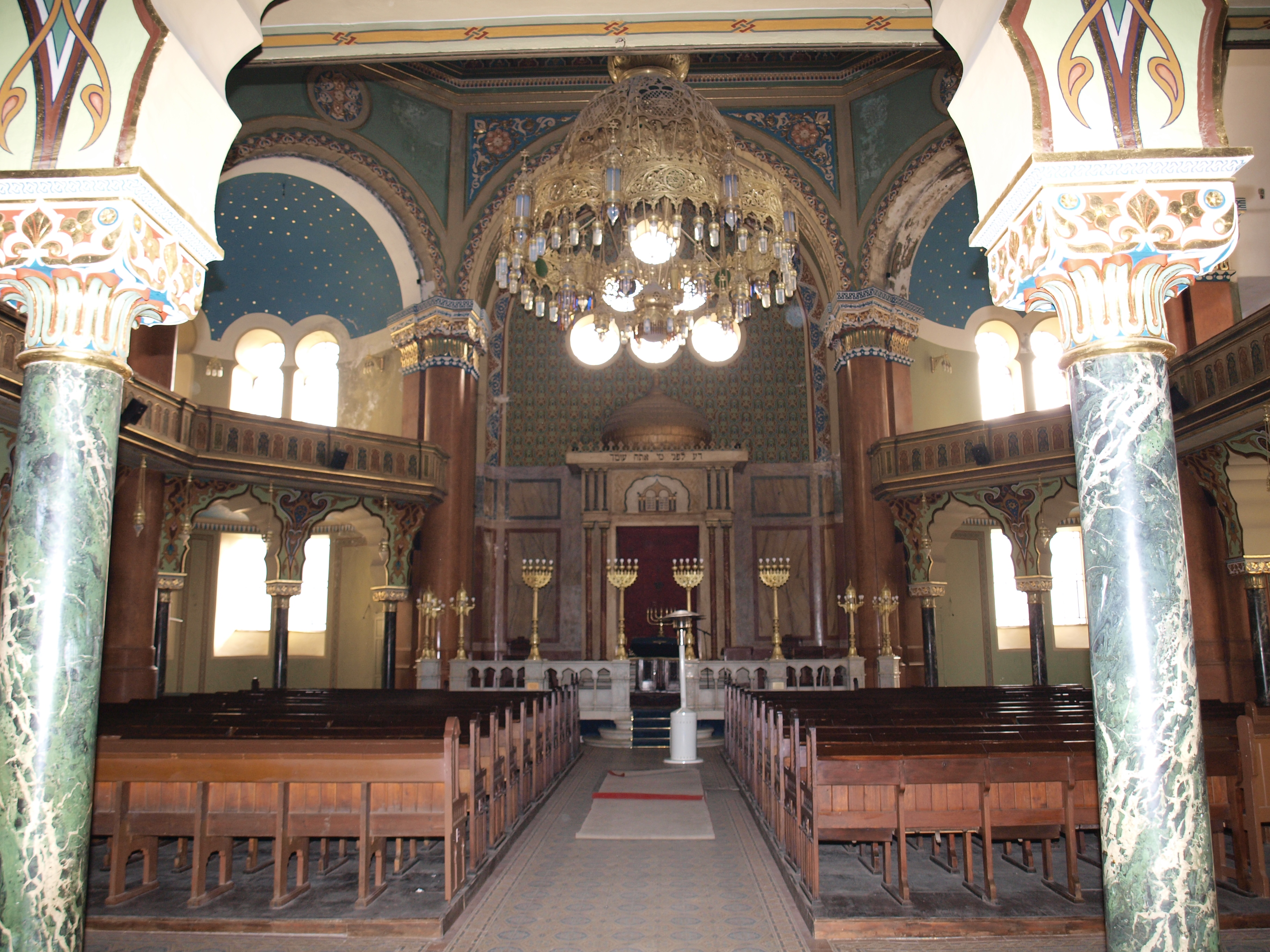 Sofia Synagogue